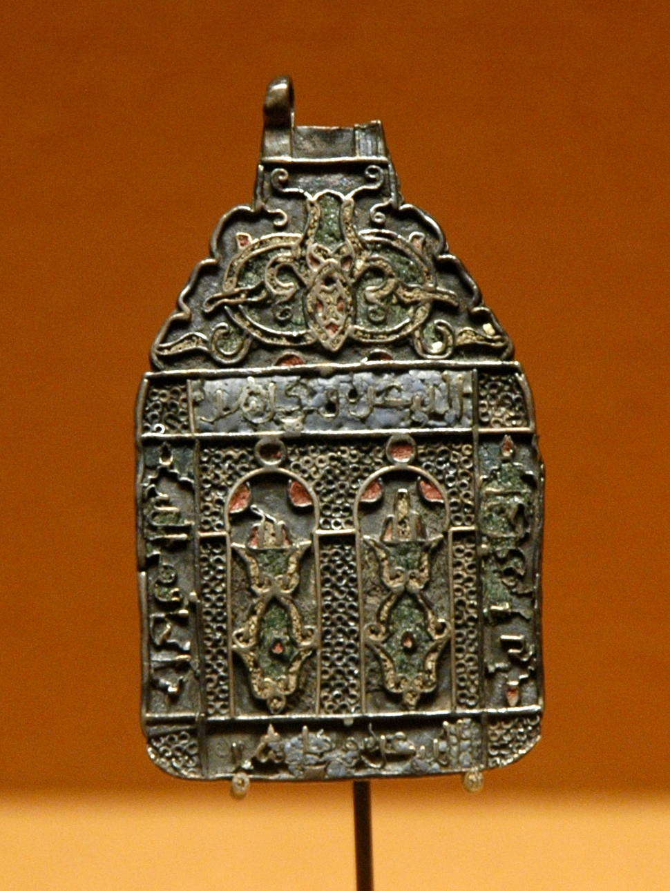 Amulet with two hands of Fatimah, bearing the inscriptions "God is the guardian", "God brings consolation in all trials".